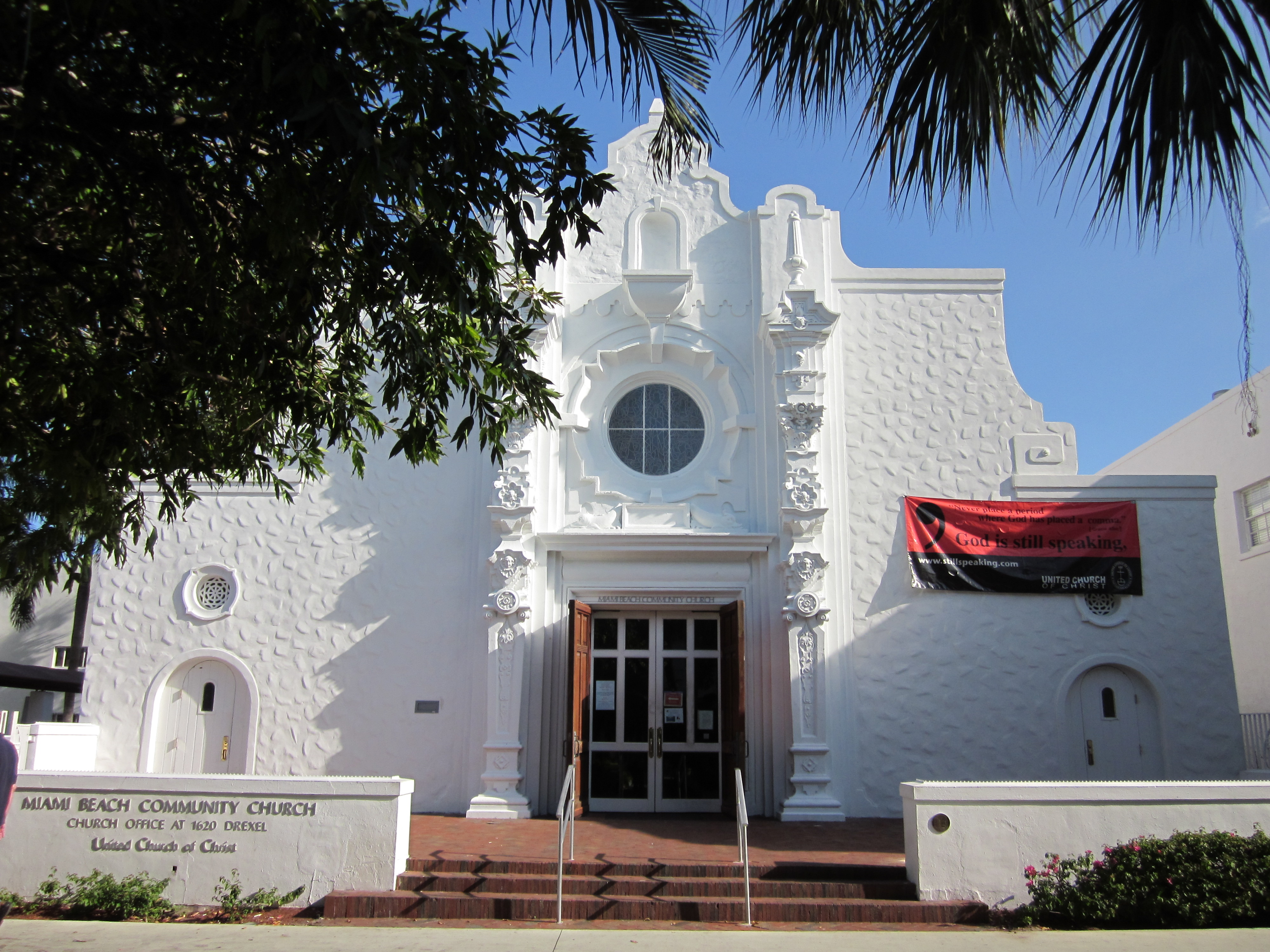 Miami Beach, Florida. Church on the Lincoln Road pedestrian area.